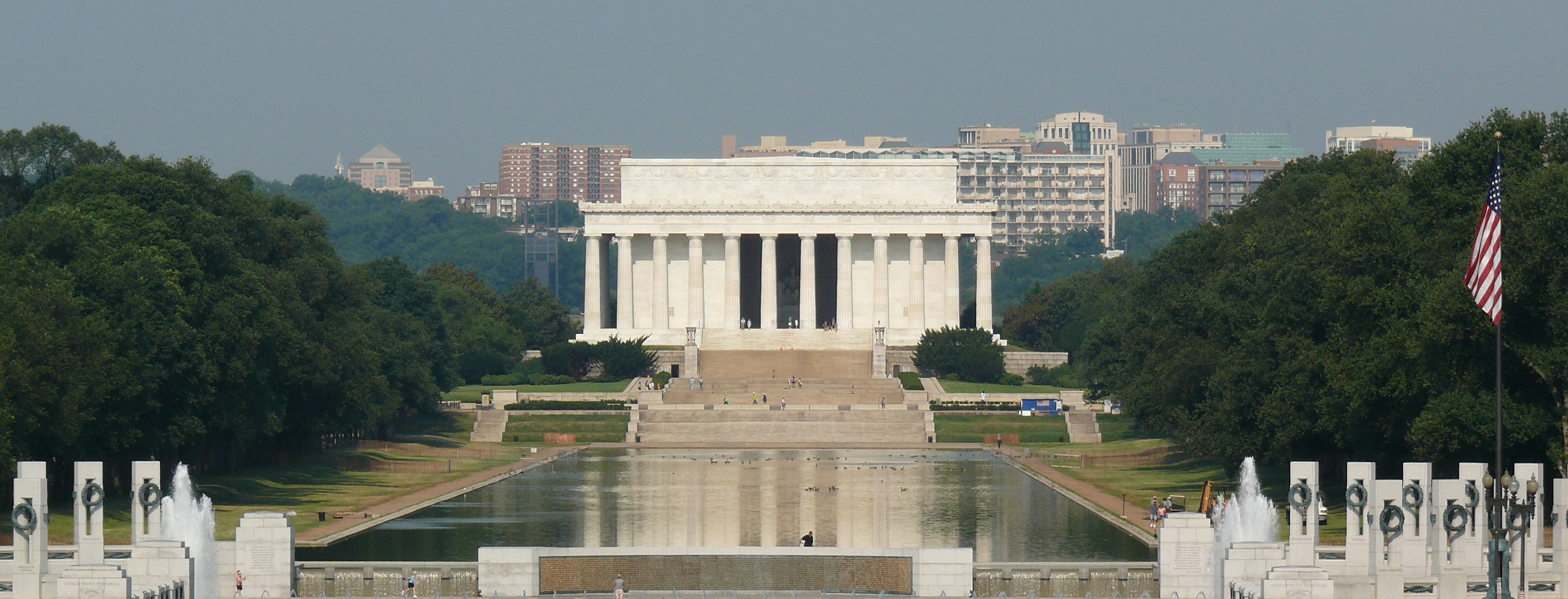 Lincoln Memorial and reflecting pool, with part of the World War II Memorial. The Lincoln Memorial is a United States Presidential memorial built to honor the 16th President of the United States, Abraham Lincoln. It is located on the National Mall in Washington, D.C. The Lincoln Memorial Reflecting Pool is the largest of Washington, D.C.'s reflecting pools. Located directly east of the Lincoln Memorial, it is a long, rectangular pool visible in many photographs of the Washington Monument. It is lined by walking paths and shade trees on both sides. It reflects both the Washington Monument and the Lincoln Memorial.